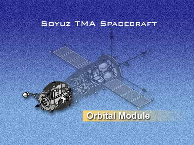 This graphic highlights the Soyuz spacecraft's Orbital Module.